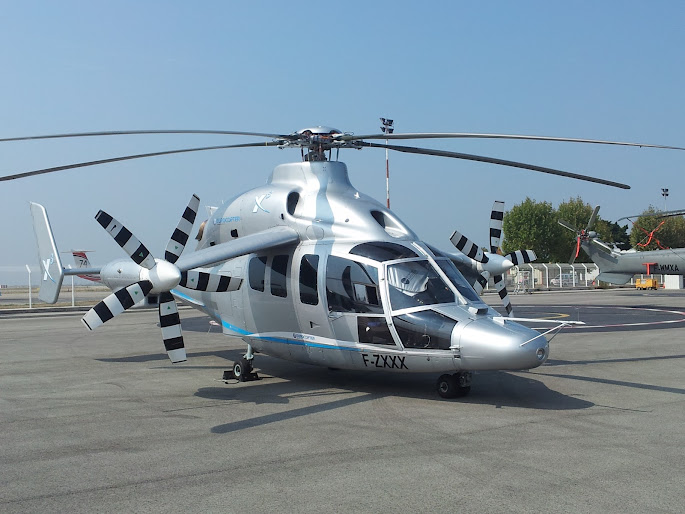 Eurocopter X3, Family Day Eurocopter, Marignane (France), the 09-09-2012